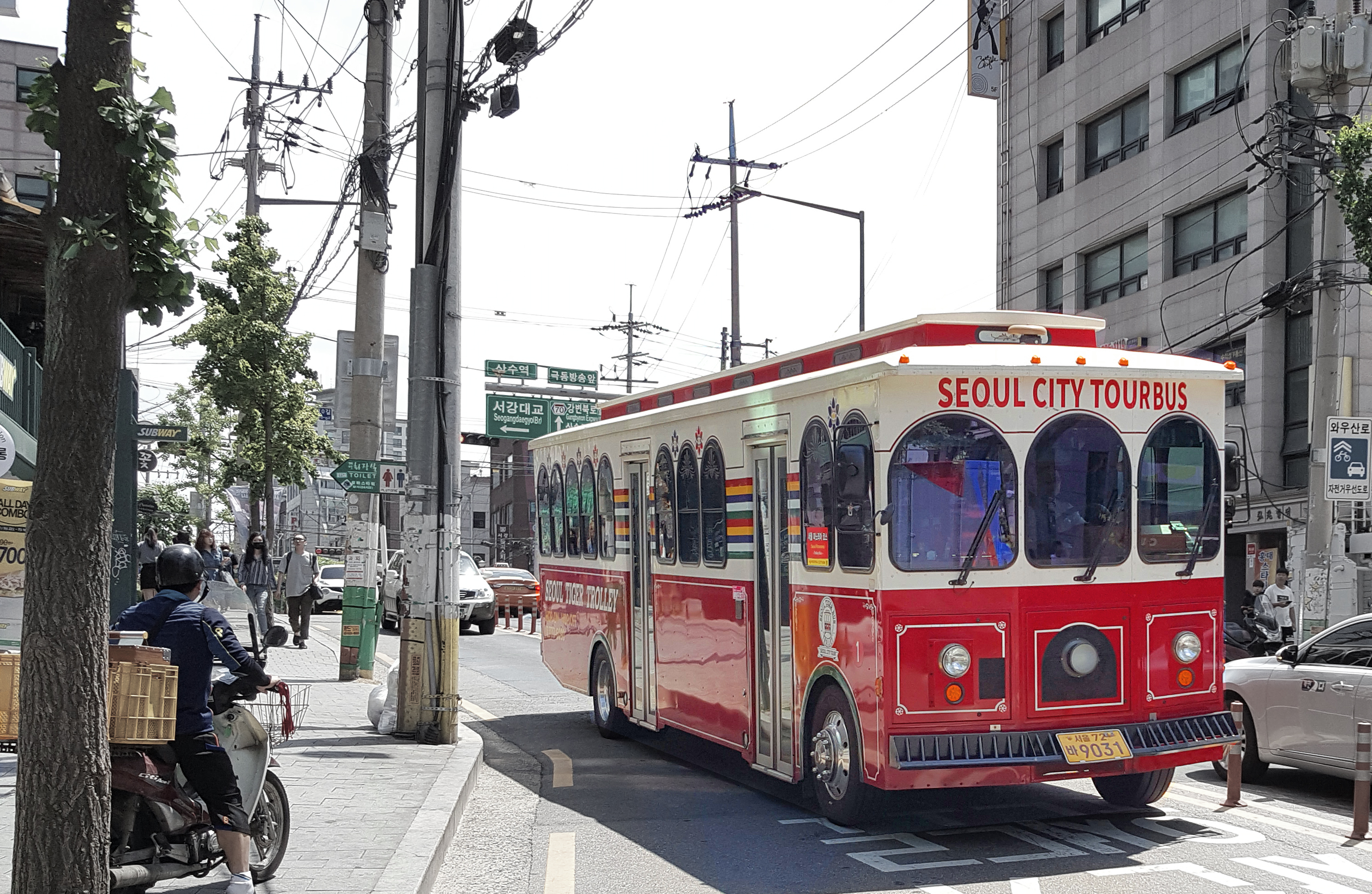 Seoul city tour bus trolley